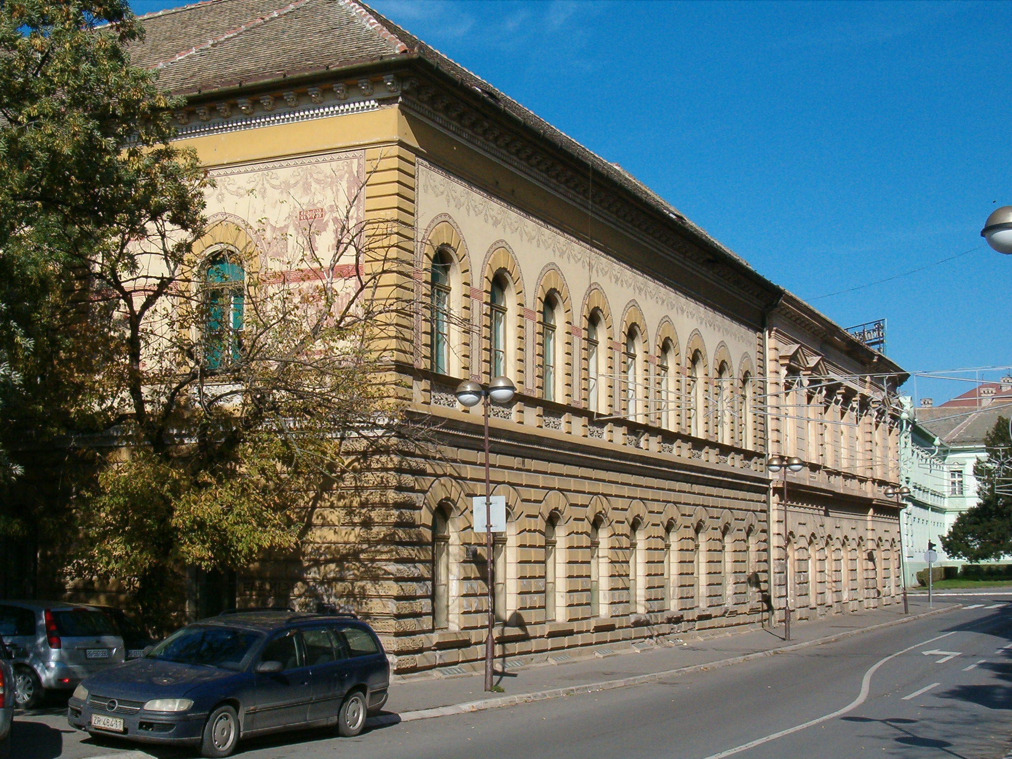 Trade academy decorated with sgraffito technique